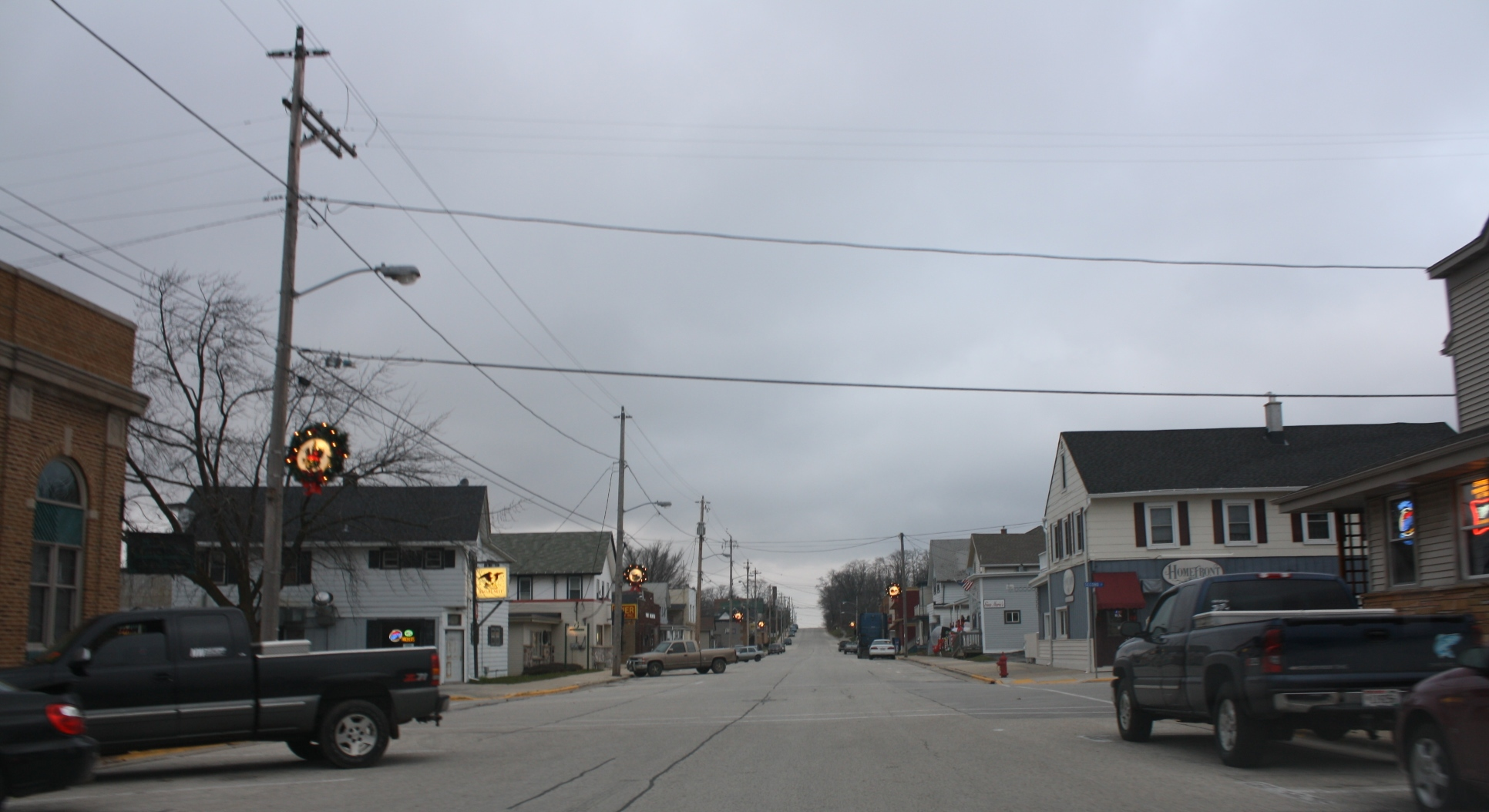 Looking north at downtown Random Lake, Wisconsin.